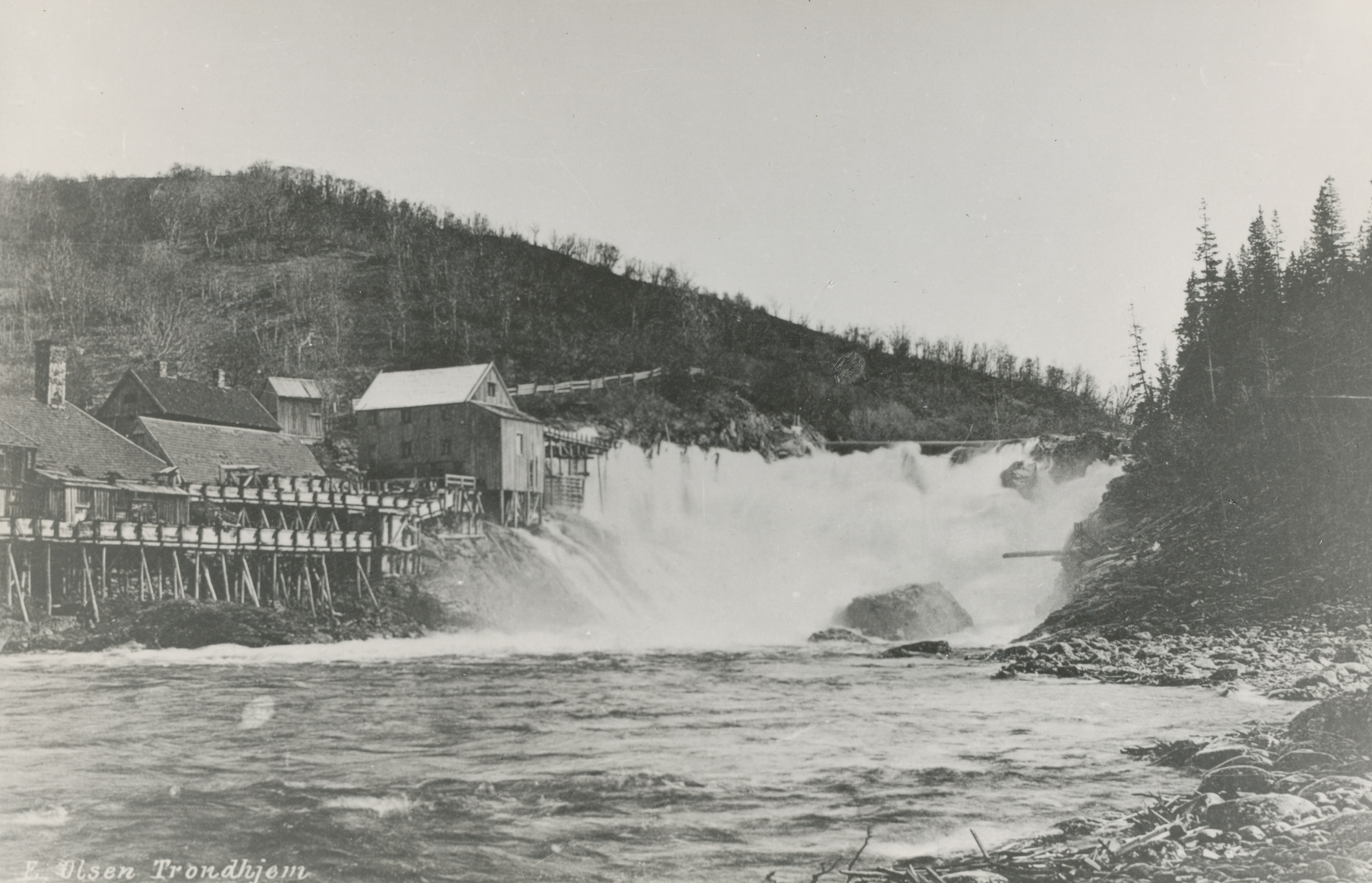 Leirfossen and Leren Chromefactory in 1870. Photo: E. Olsen. The picture is donated to Trondheim Byarkiv (Municipal Archives of Trondheim) by Gaute Strøm.